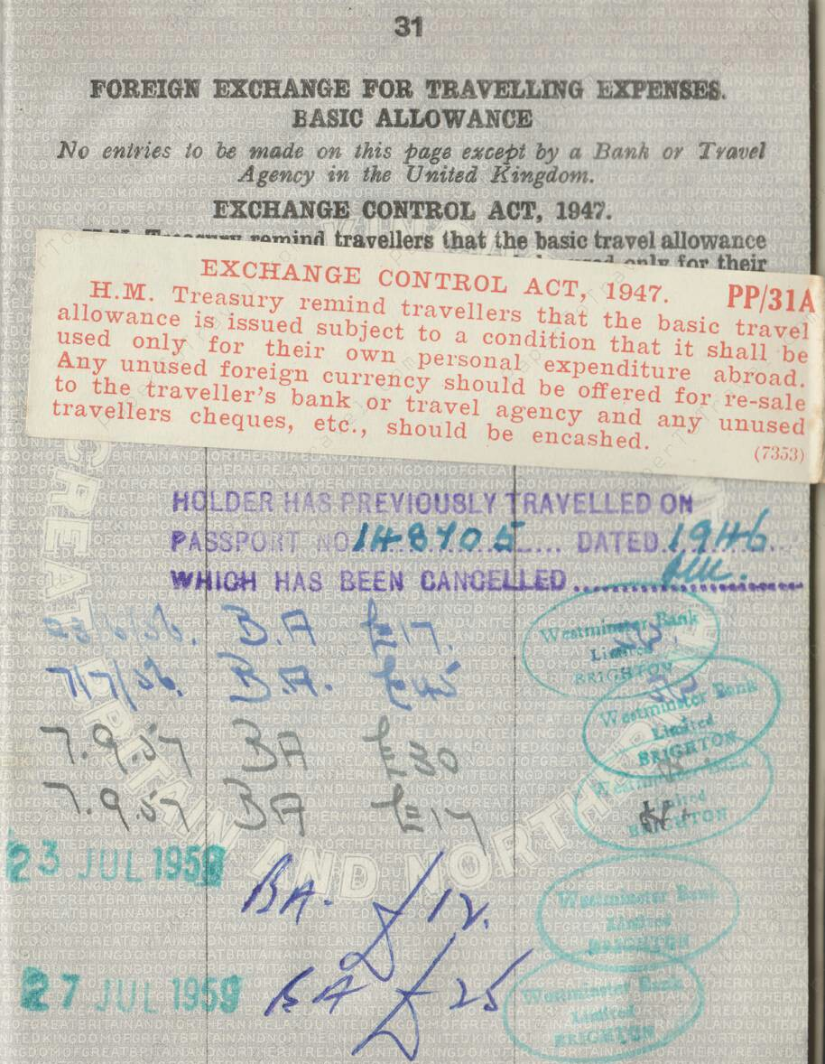 British Passport 1956, Foreign Exchange for Travelling Expenses, Basic Allowance page with 'Exchange Control Act 1947' notation